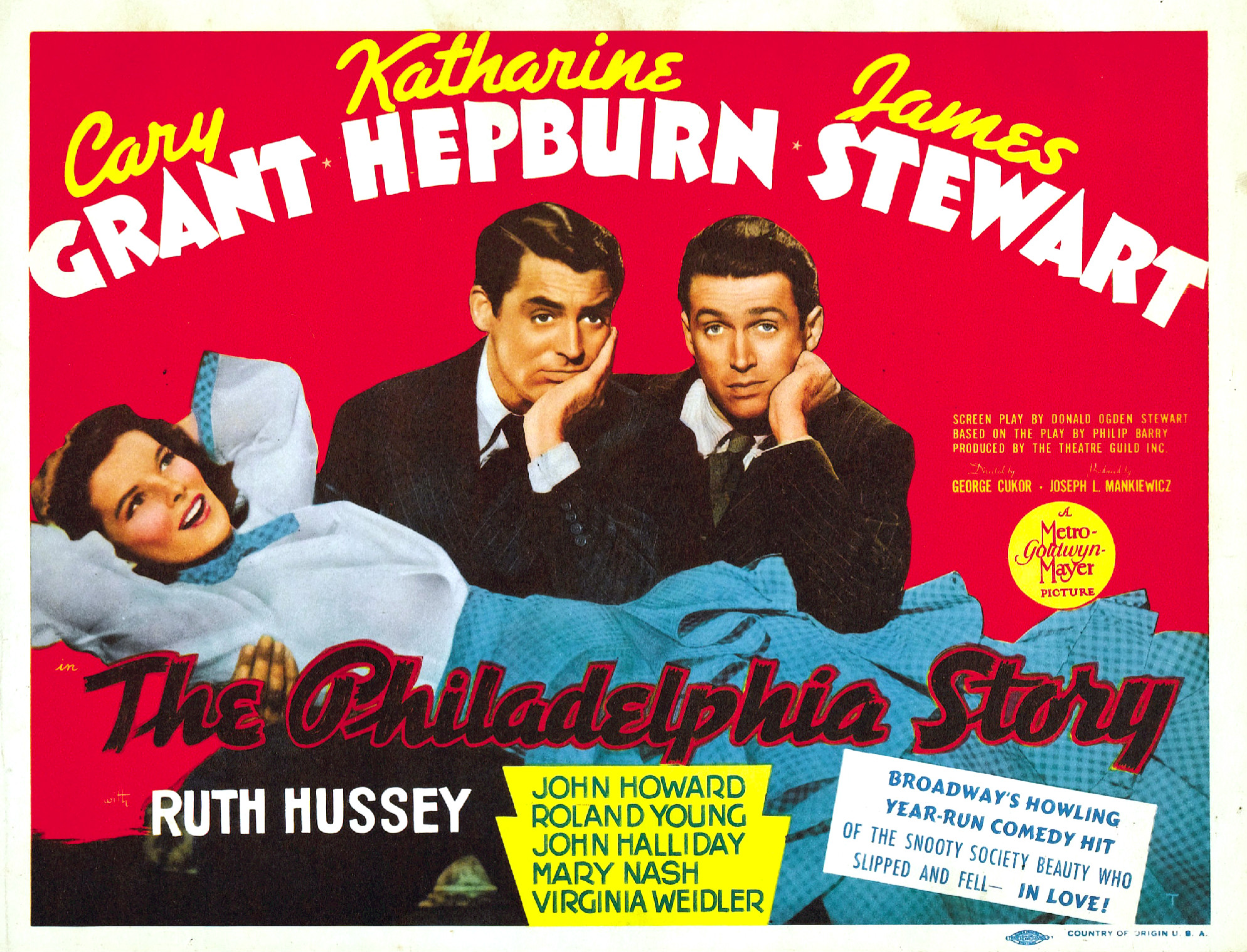 Lobby Card for the 1940 film, The Philadelphia Story The item has no copyright marks as can be seen in the links. At bottom right is a logo indicating the card was produced by a union print shop and Country of origin USA.